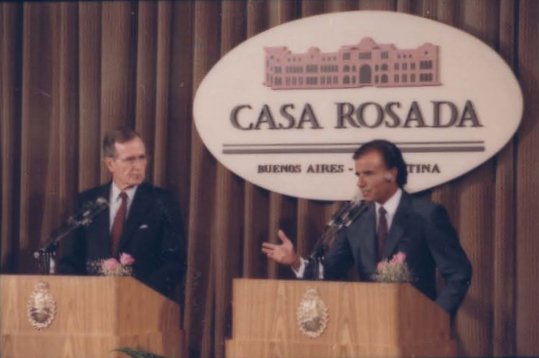 PRESIDENT BUSH AND PRESIDENT CARLOS MENEM PARTICIPATE IN A JOINT PRESS CONFERENCE AT SALA DE CONFERENCIA, CASA DE GOBIERNO (CASA ROSADA).